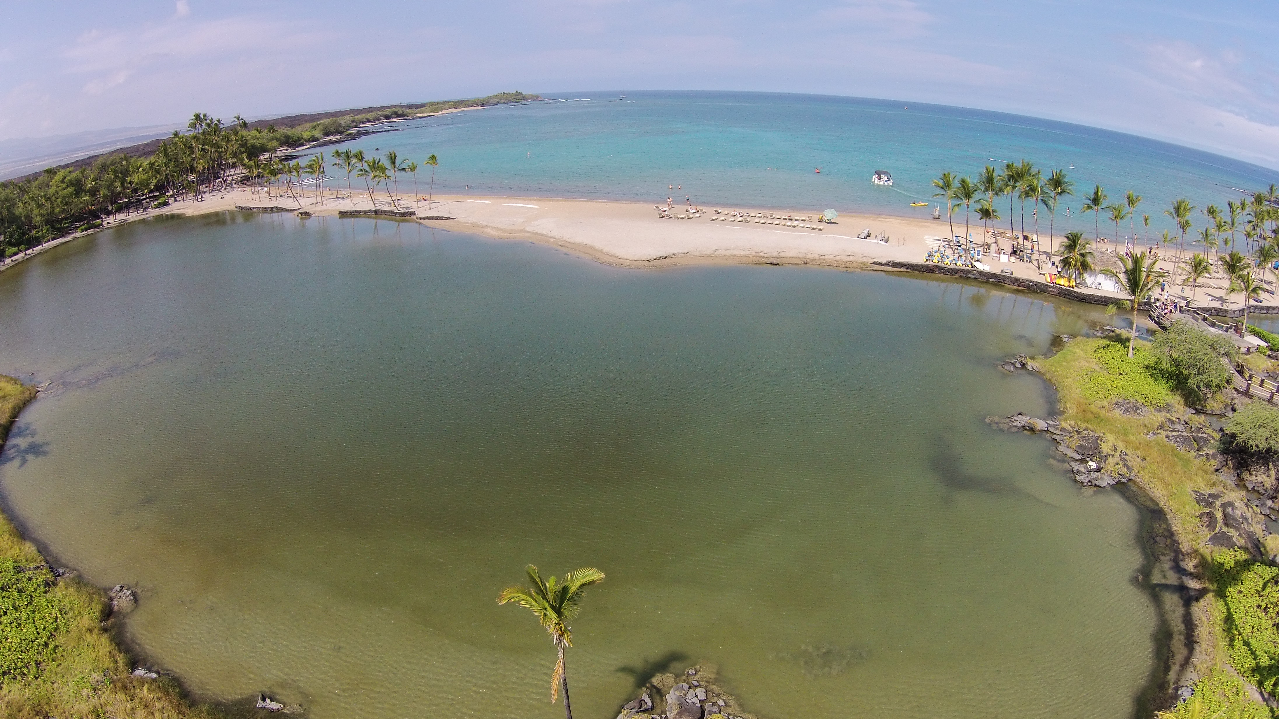 Aerial view of the Anaeho'omalu Bay Fish Ponds